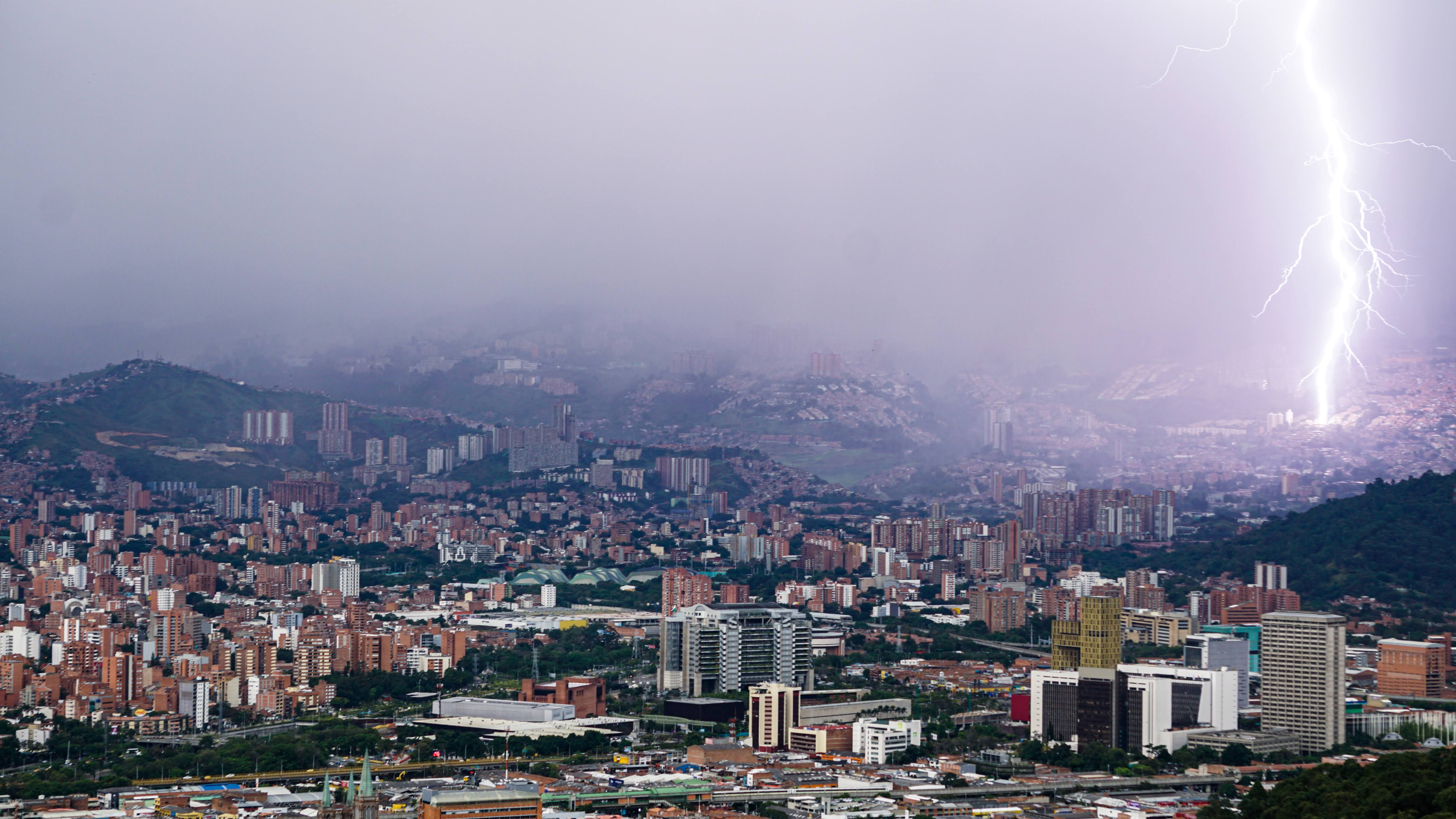 Medellin's Climate